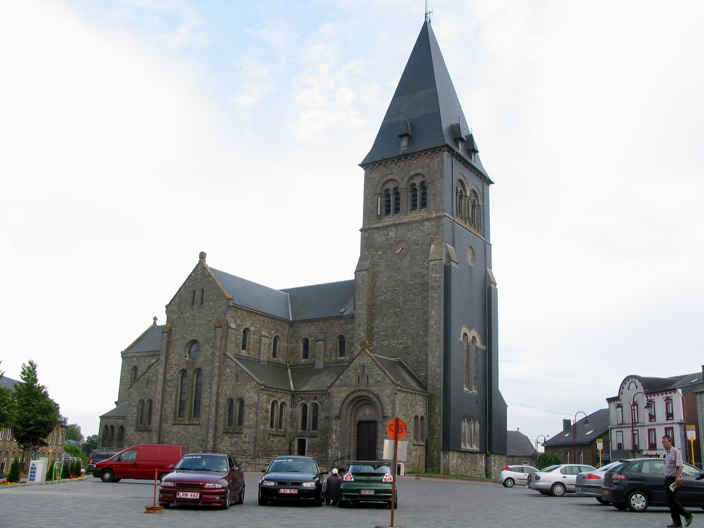 Bertrix (Belgium), St. Stephen's church.